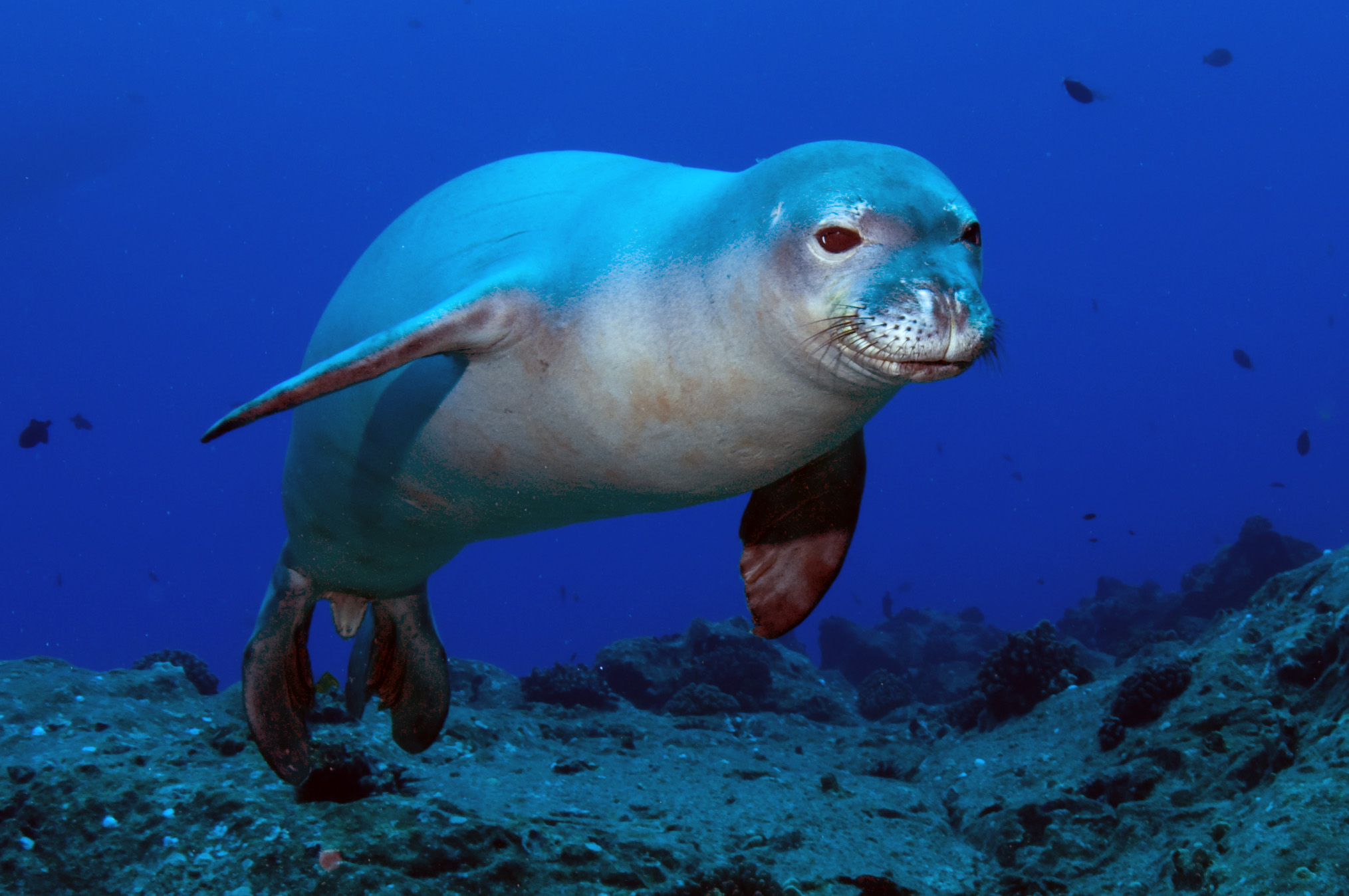 Monachus schauinslandi (Hawaiian Monk Seal) underwater at Five Fathom Pinnacle, Hawaii.